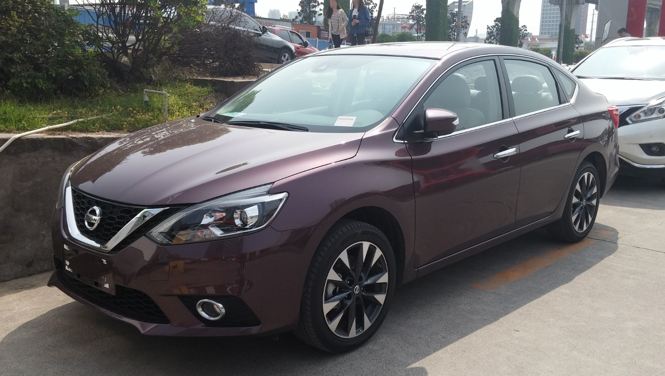 Nissan Sylphy B17 facelift photographed in Chongqing, China.